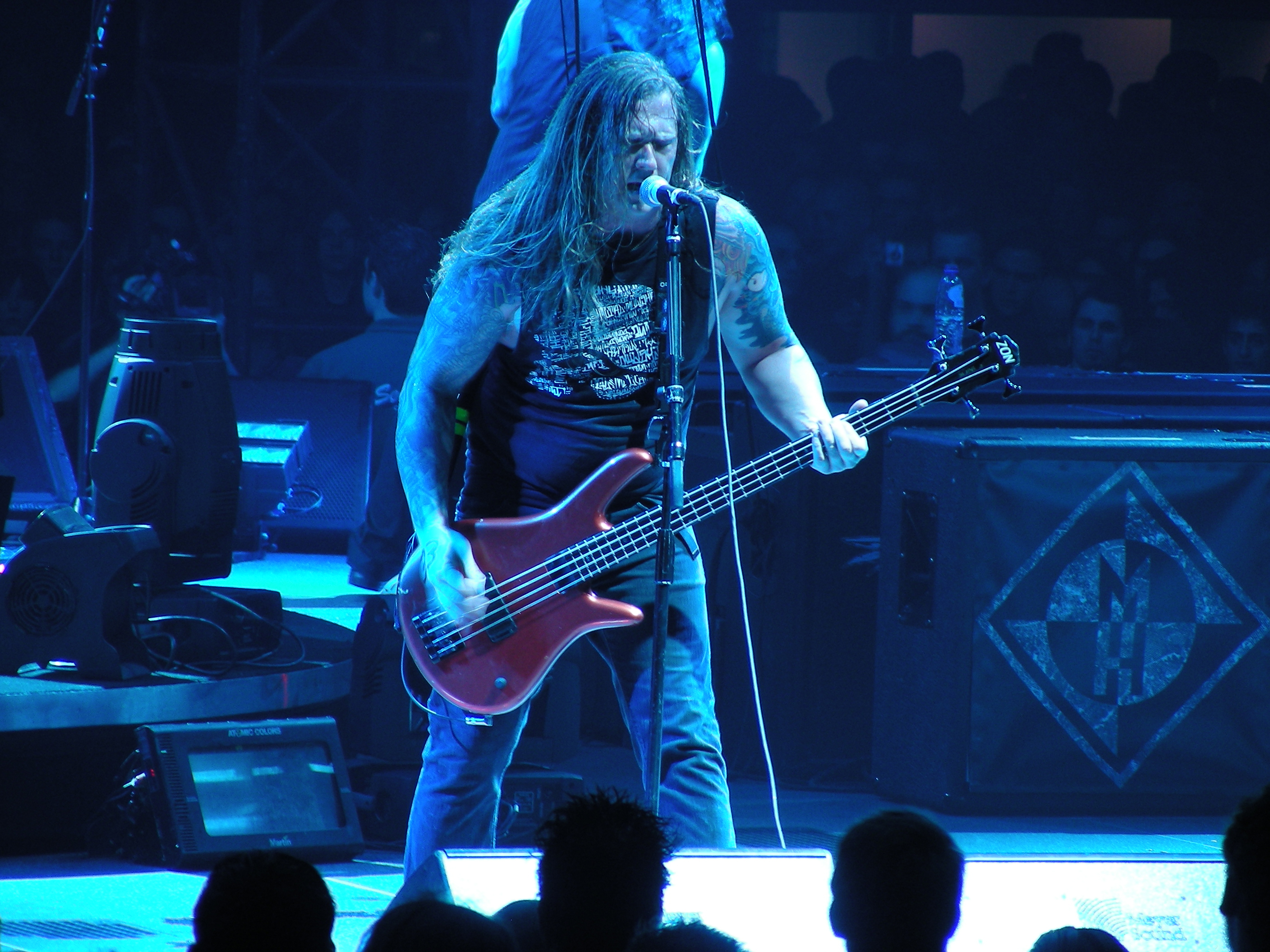 Adam Duce of Machine Head at support band for Metallica concert on 2009-03-30 (Death Magnetic Tour, Ahoy Rotterdam)